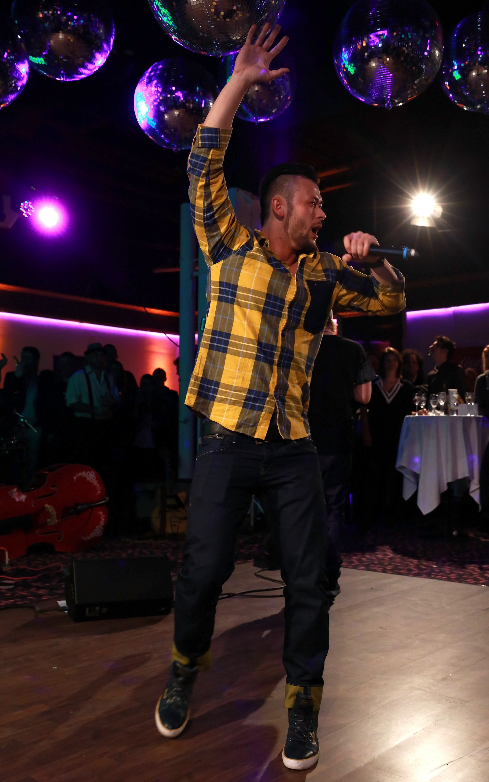 Trackshittaz performing at the party at the premiere for Rise Up! And Dance, UCI Kinowelt Millennium City in Vienna.